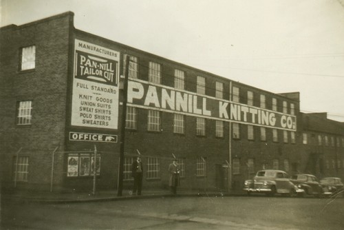 Pannill Knitting Company, Martinsville, Virginia, founded by Will Pannill in 1926. Located on Cleveland Avenue.